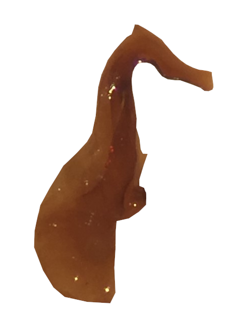 Lateral perspective of a Bidessonotus inconspicuss aedeagus from the University of Mississippi Field Station